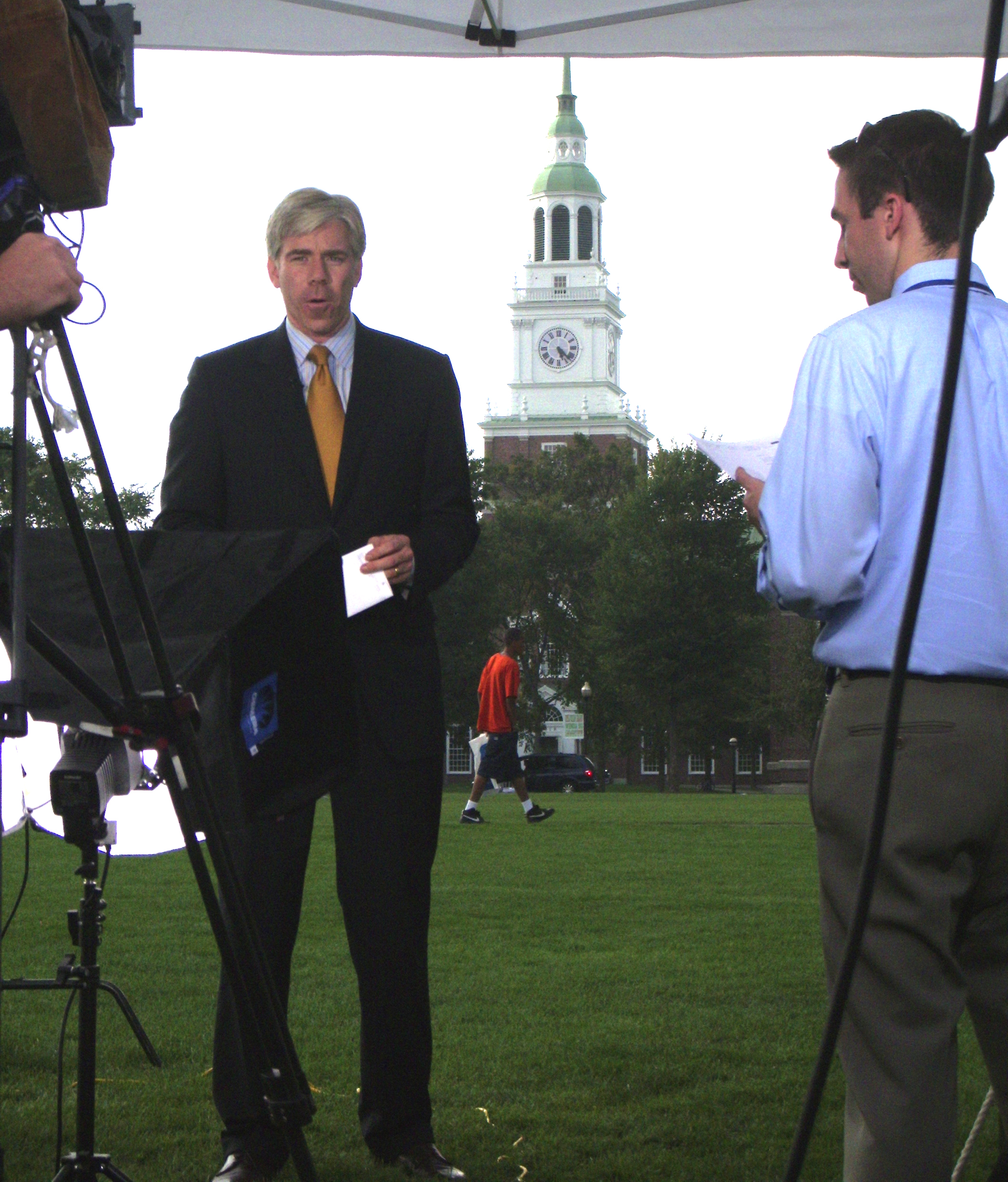 Reporter David Gregory reports on a 2007 Democratic Presidential Candidates Debate on The Green at Dartmouth College in Hanover, New Hampshire